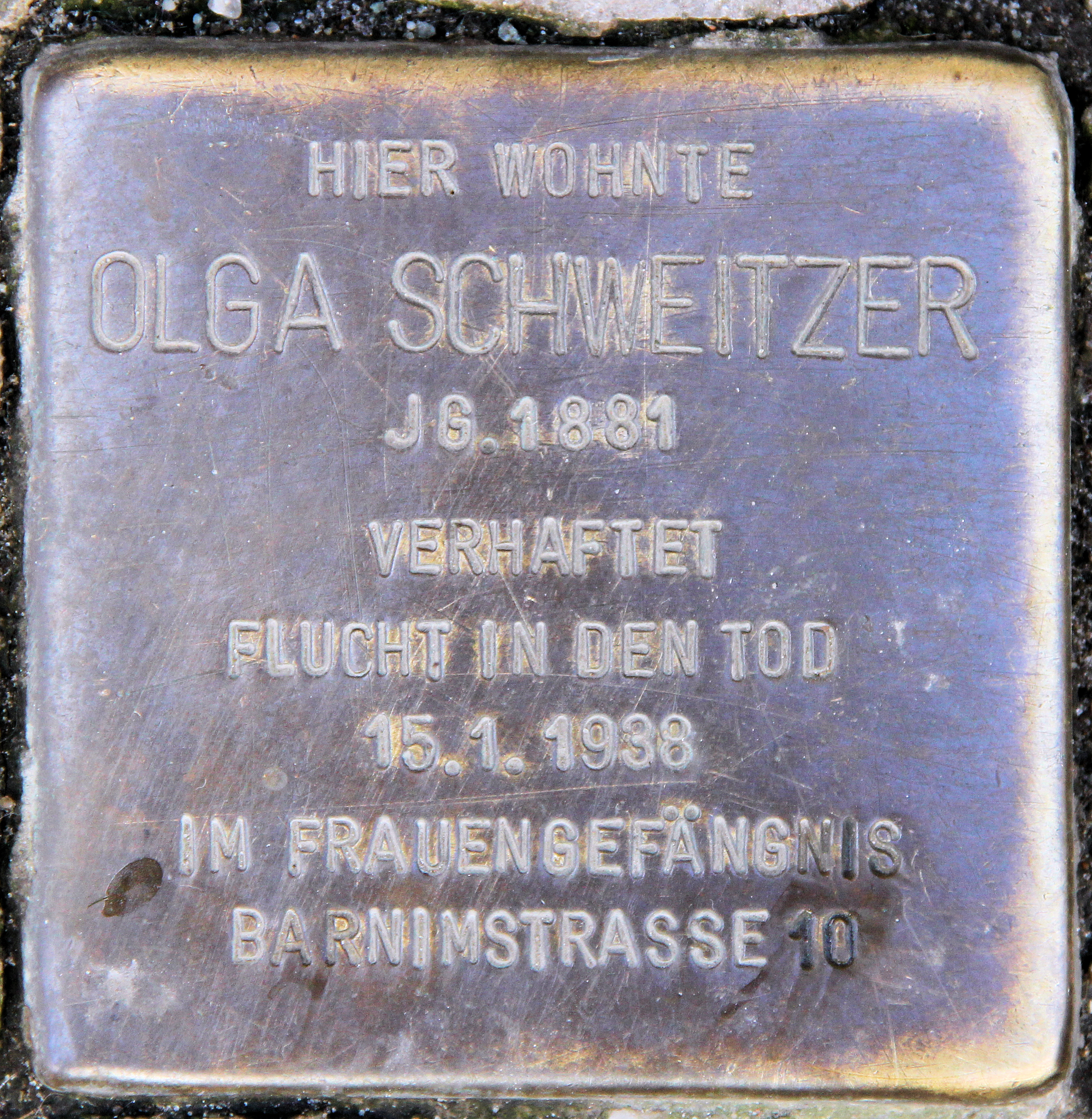 "Stolperstein" (stumbling block), Olga Schweitzer, Paderborner Straße 9, Berlin-Wilmersdorf, Germany